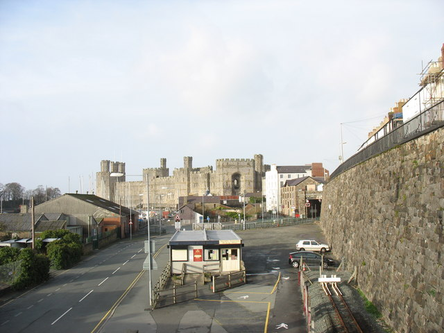 The Ticket Office of the Welsh Highland Railway The end buffers of the WHR can be seen in the foreground right. This view, taken from the footbridge crossing the track, also shows, in the middleground right, the railway tunnel which took the Caernarfon-Pwllheli line under Y Maes.